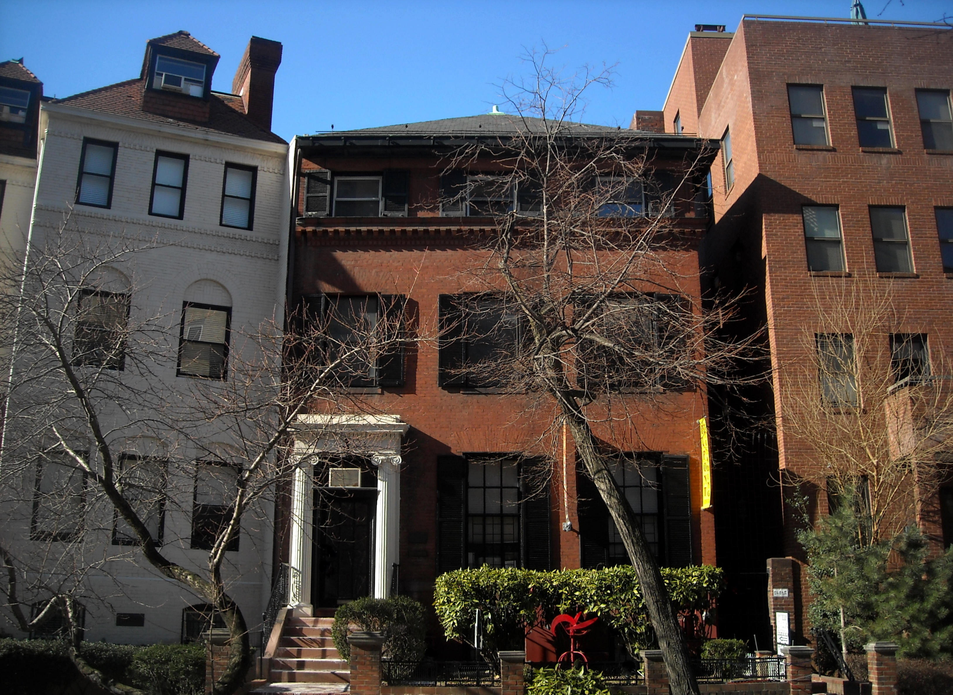 The Foundry Gallery, located at 1314 18th Street, N.W., in the Dupont Circle neighborhood of Washington, D.C. Past occupants of the former residential building include Robert R. Hitt and Caroline Mytinger. An example of Italianate architecture, the building is a contributing property to the Dupont Circle Historic District, listed on the National Register of Historic Places in 1978.